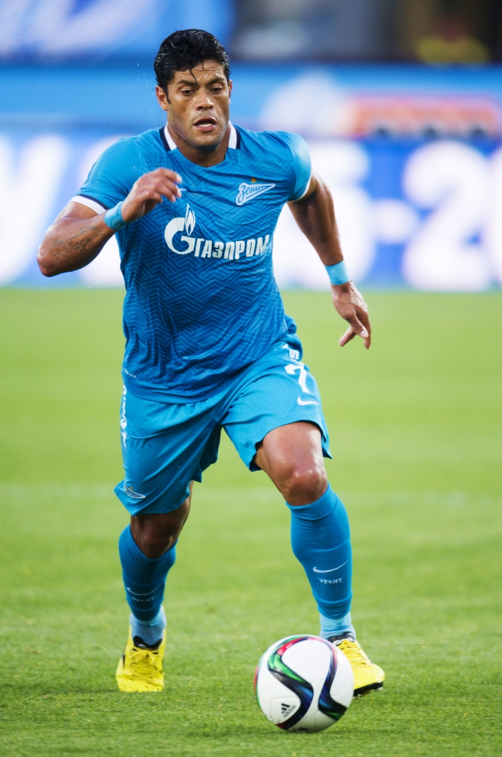 29.08.2015. Hulk